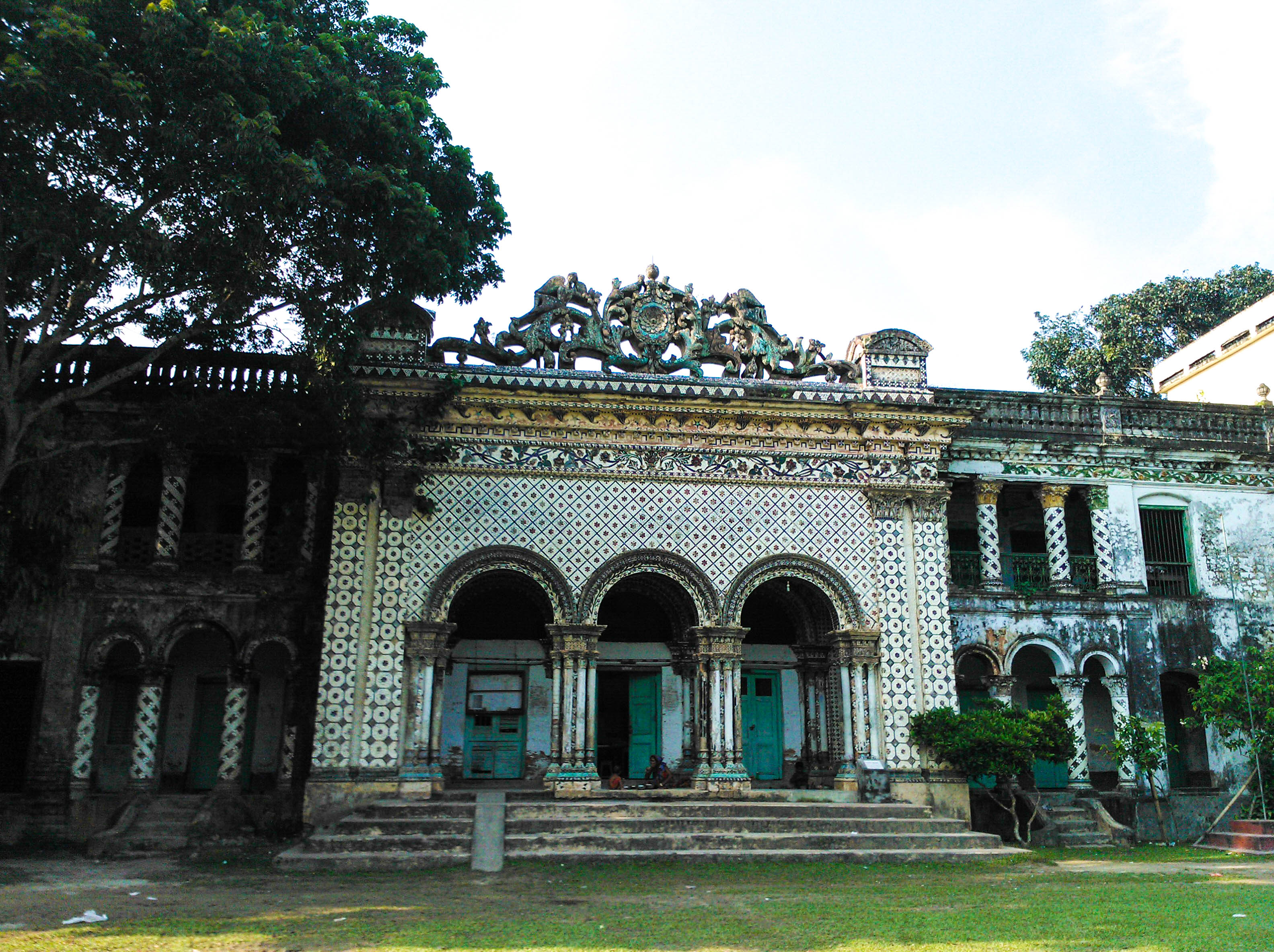 Hemnagar Zamindar Bari, Gupalpur, Tangail. It was built by the prominent Hindu Zamindar from Tangail district named Hemchandra Choudhury at 1890.